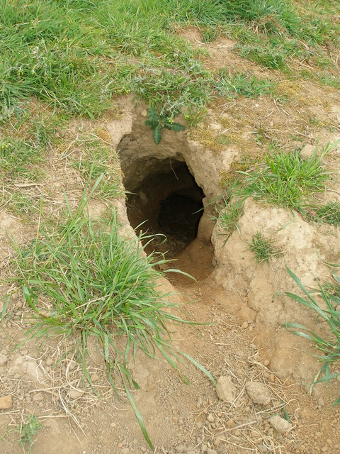 Badger hole. This large hole was in the middle of the footpath! Closer examination of the area revealed many holes, particularly under the gorse bushes lining the edge of the path.